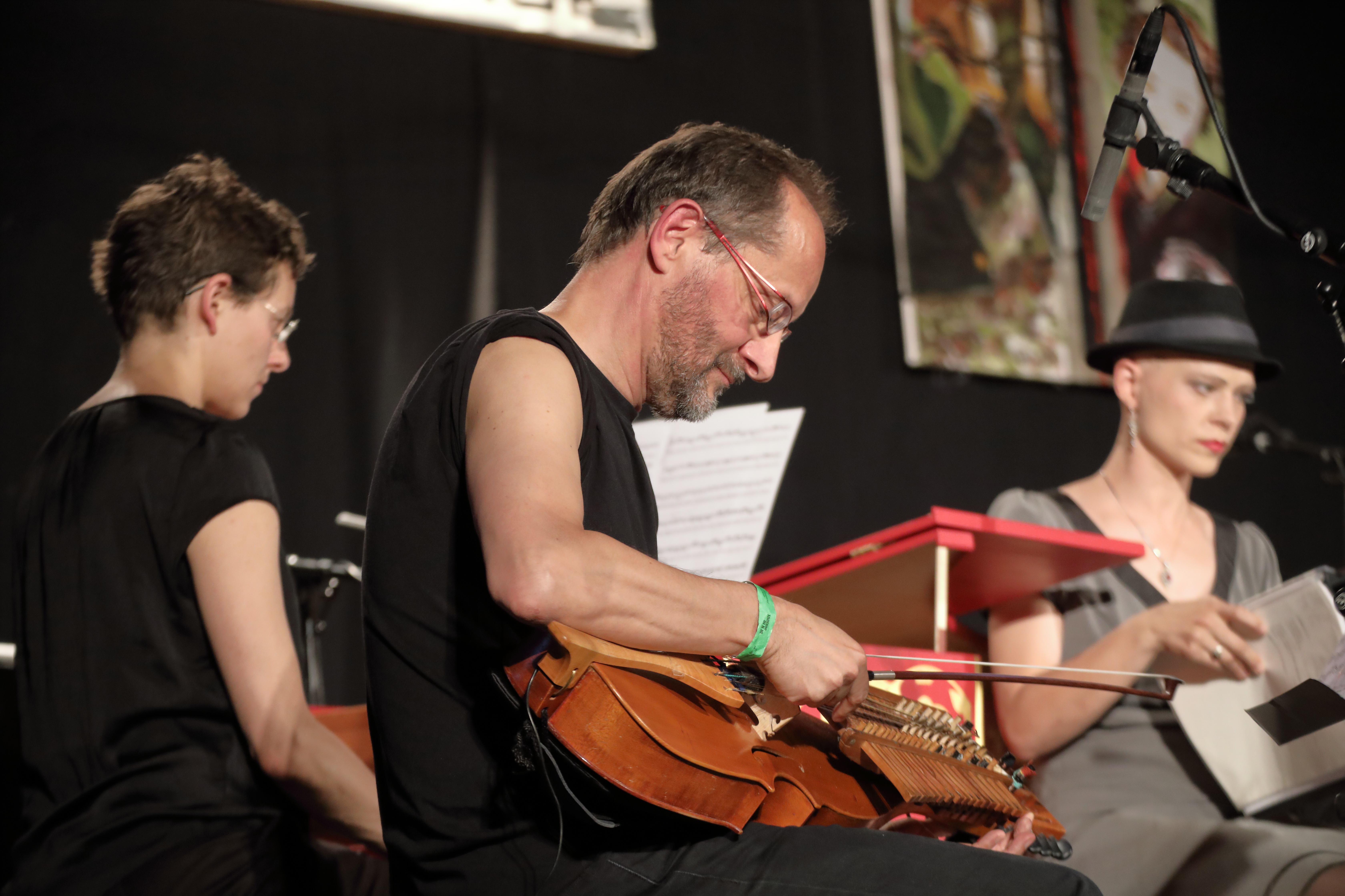 Nyckelharpa player Marco Ambrosini and Supersonus at INNtöne Jazzfestival 2019.